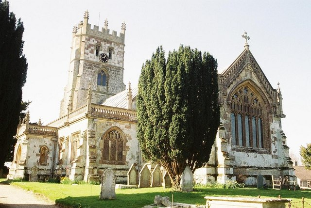 Fontmell Magna: parish church of St. Andrew Rebuilt in 1862 apart from the lower part of the tower.